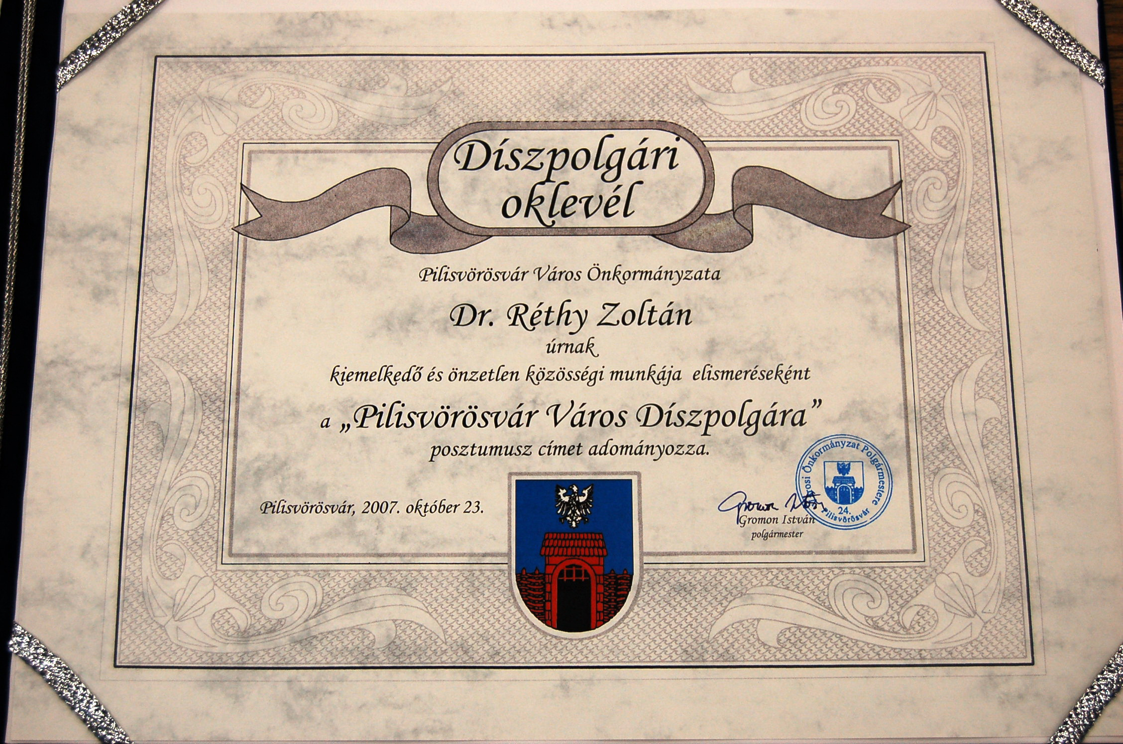 Zoltan Réthy certificate of honorary citizenship